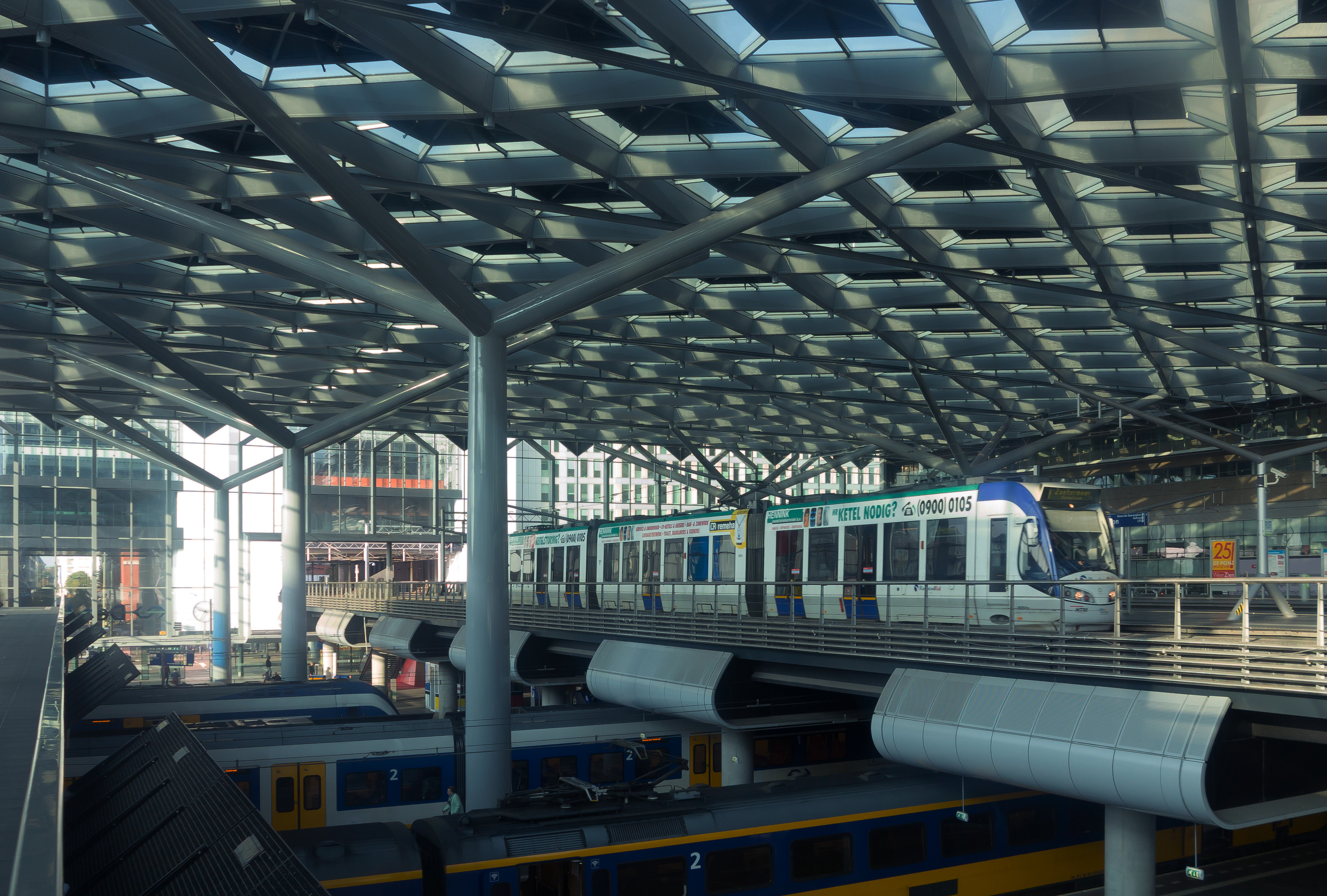 The Hague, Station Centraal for trains and trams